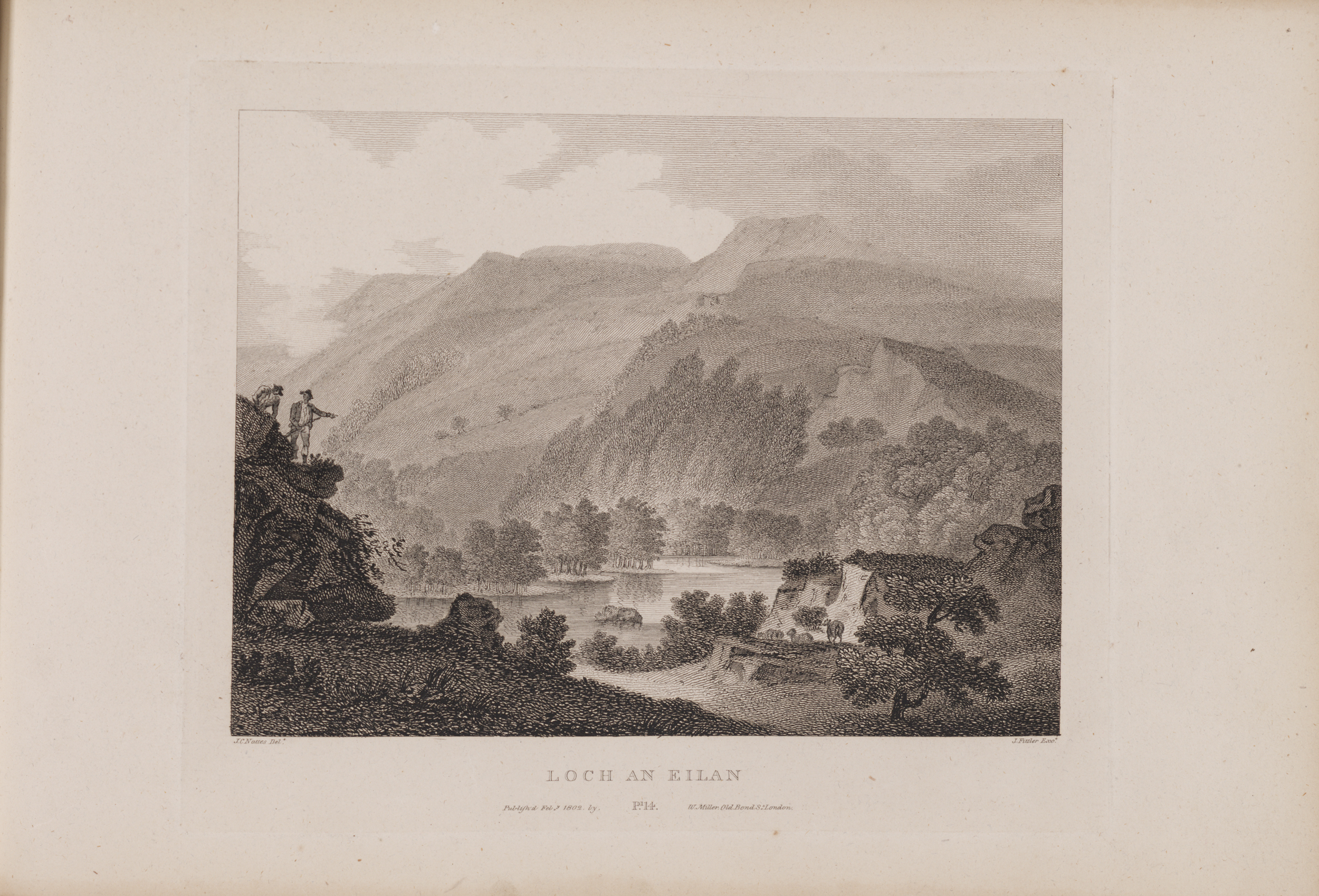 Plate XIV/b - John Claude Nattes made drawings of suitable scenes on the spot; etchings are by James Fittler. - John Claude Nattes made drawings of suitable scenes on the spot; etchings are by James Fittler.